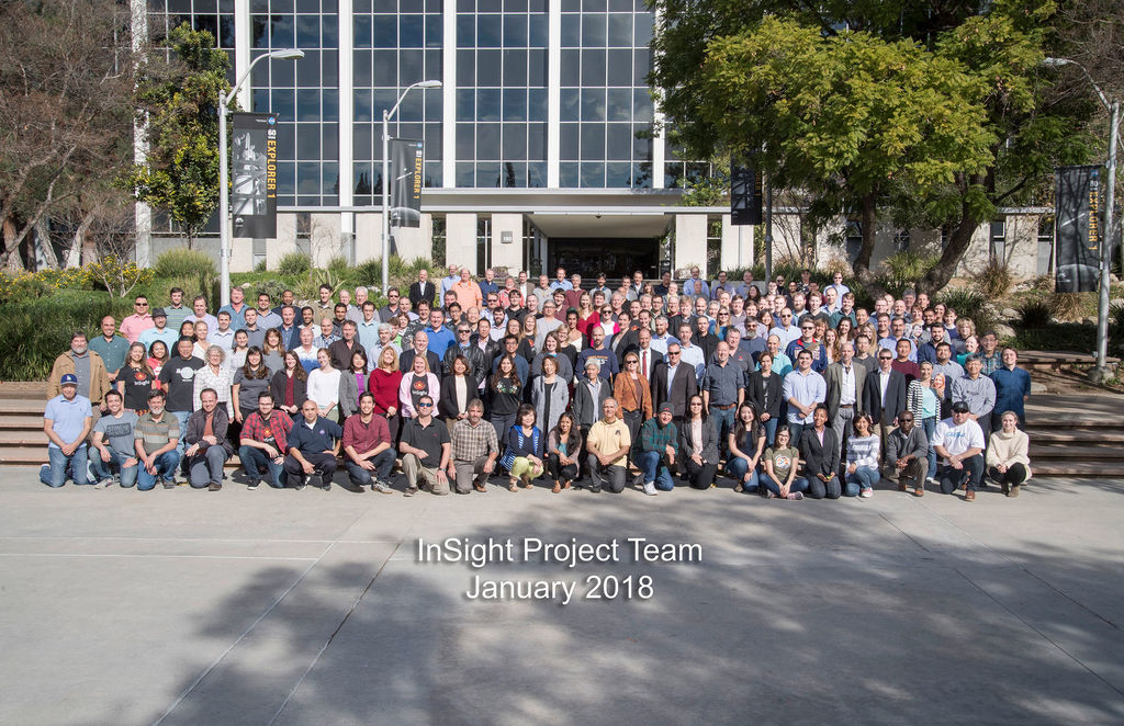 The InSight Team at NASA's Jet Propulsion Laboratory, JPL, in January 2018.